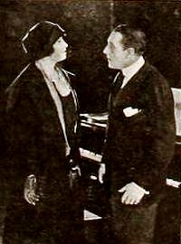 Still from the American film Dollars and the Woman (1920) with Alice Joyce and Crauford Kent, page 3490 of the April 17, 1920 Motion Picture News.